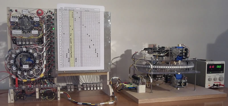 An experimental prototype to achieve Turing machine.